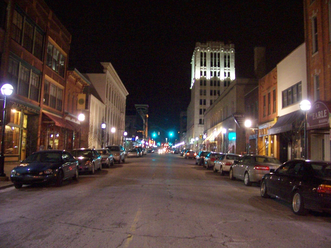 Ann Arbor, Michigan. Washington Street toward Main Street